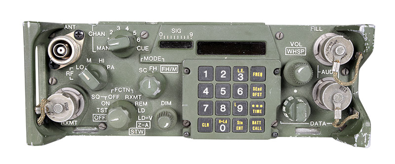 The front of the Exelis SINCGARS RT-1439